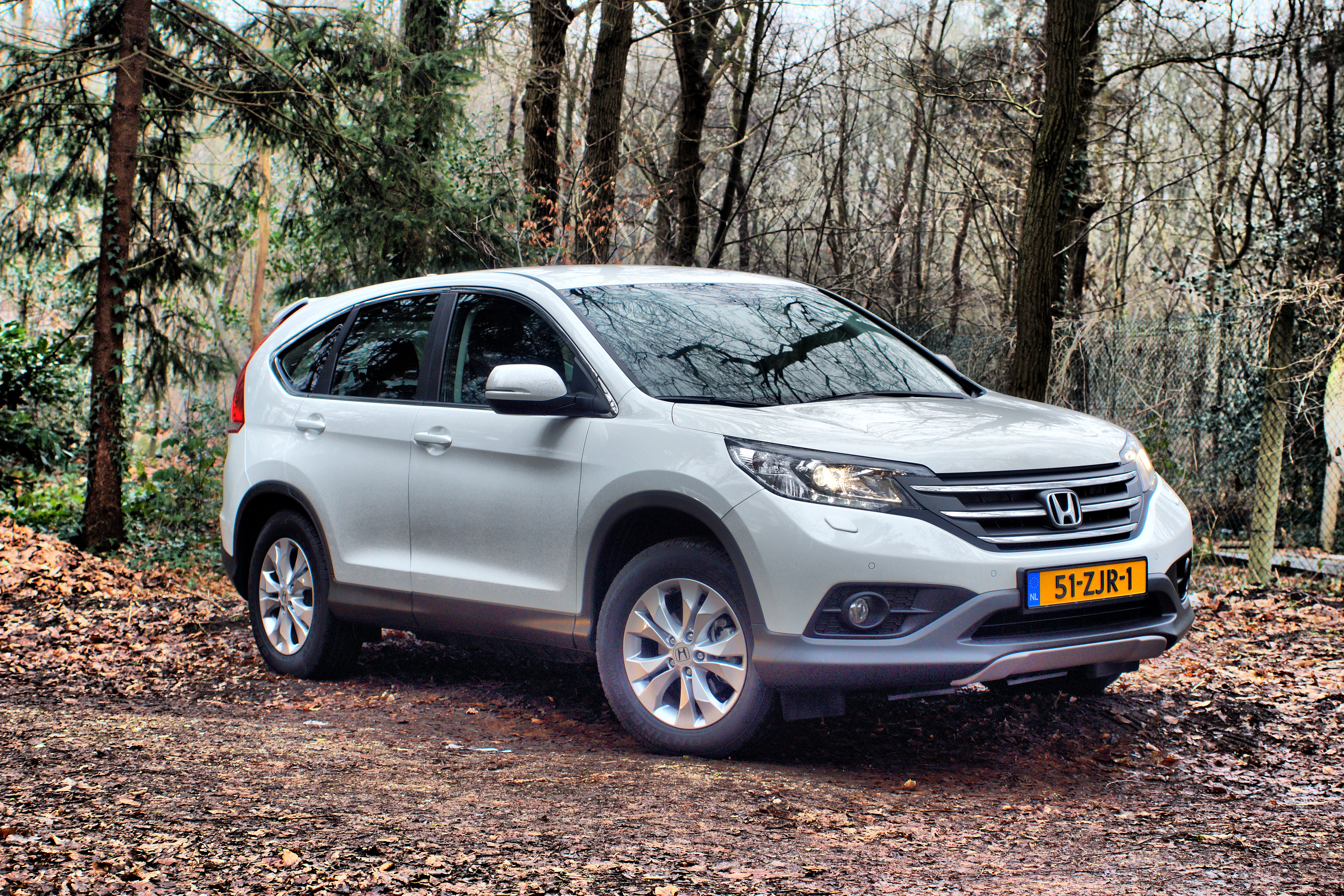 2013 Honda CR-V